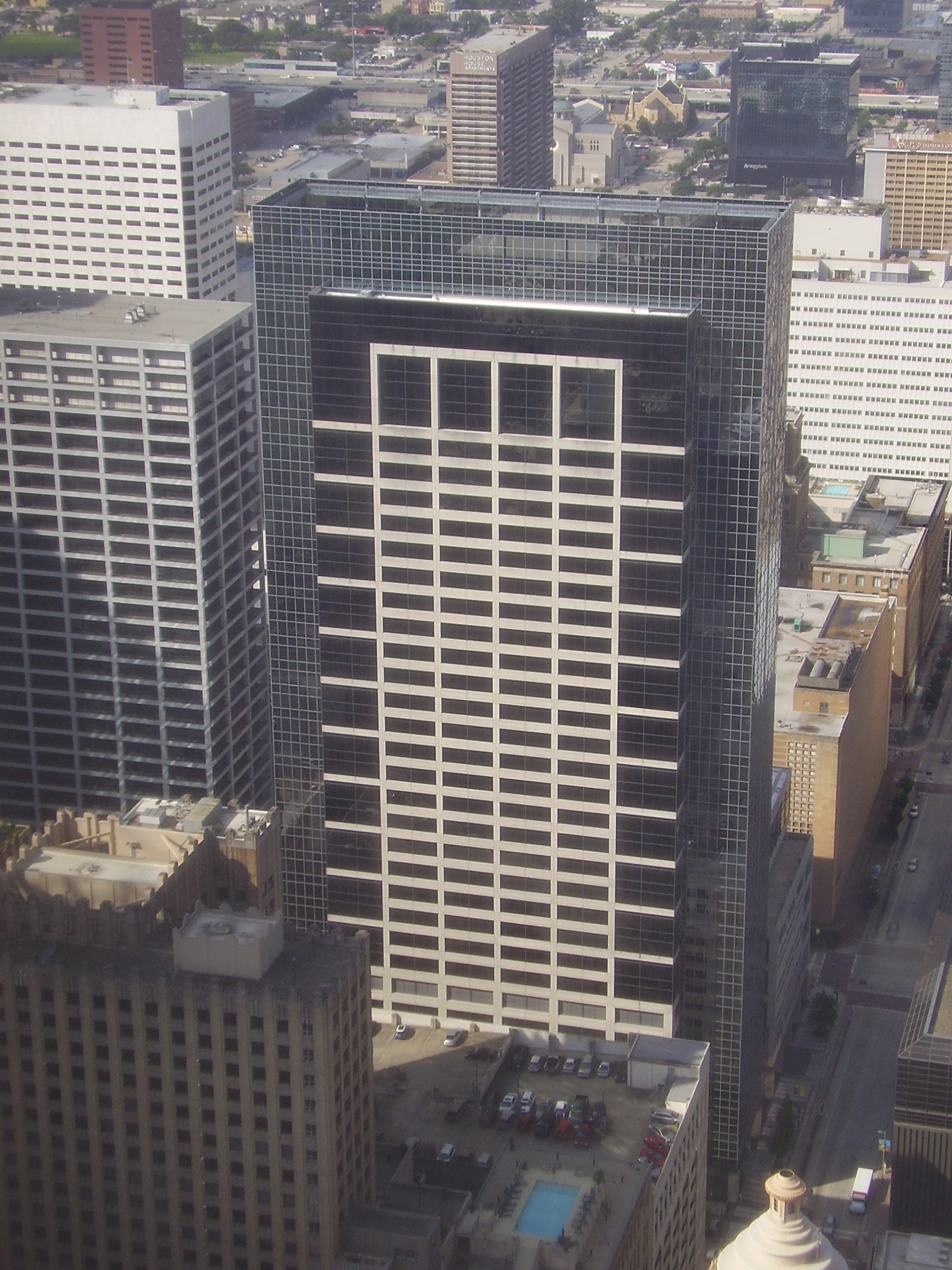 Reliant Energy Plaza, the headquarters of RRI Energy - Seen from the JPMorgan Chase Tower